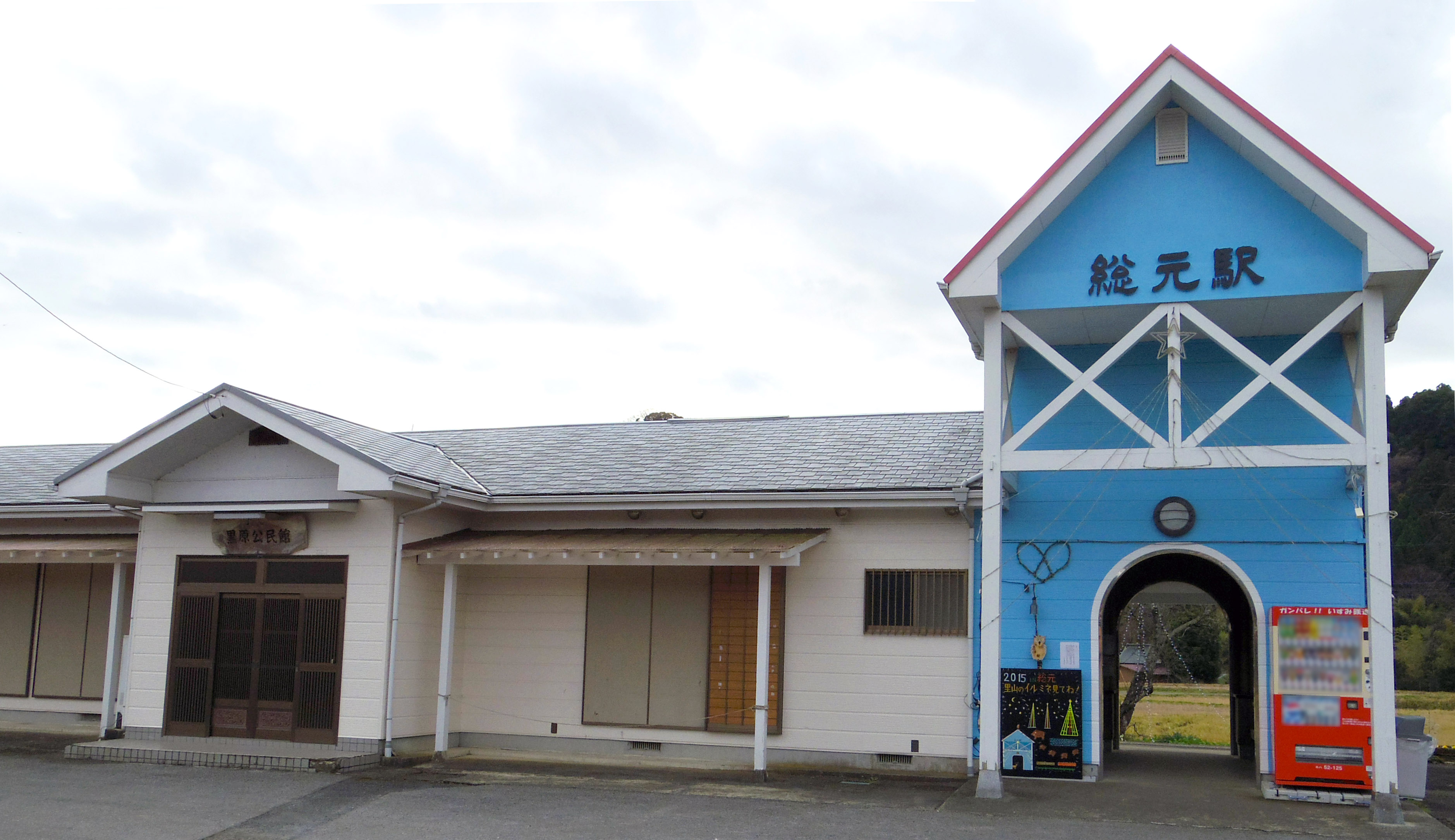 The entrance to Fusamoto Station on the Isumi Line in Ōtaki town, Chiba prefecture, Japan